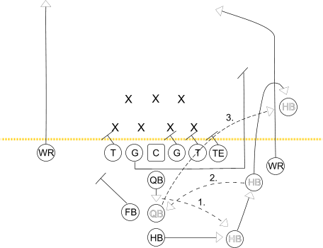 An american football play diagram depicting a flea flicker trick play. This diagram was created by the submitter. QB pitches to HB and drops back HB runs to the line of scrimmage and passes the ball or laterals back to the QB QB passes to an eligible receiver downfield